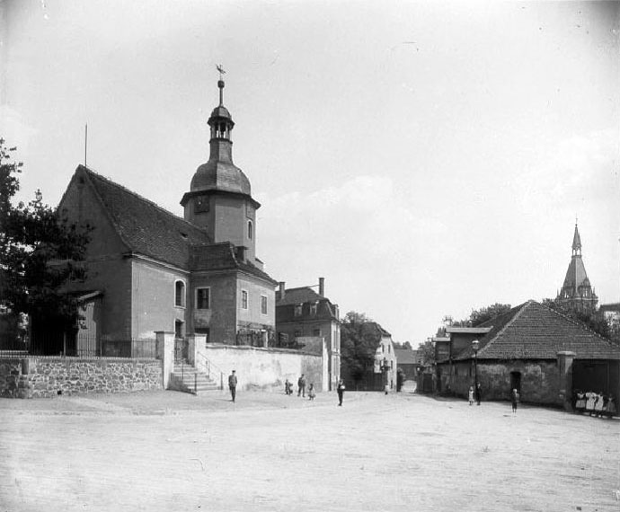 Old church in Leipzig-Kleinzschocher, Hauptstrasse; in the background Manor entrance